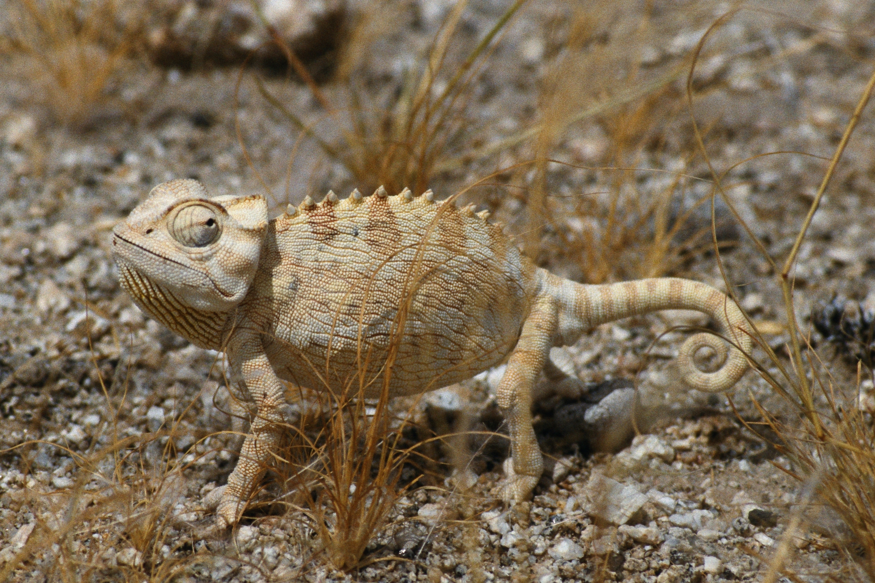 Namaqua Chameleon, Spitzkoppe